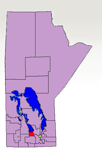 The 1998-2011 boundaries for the provincial electoral district of Portage la Prairie highlighted in red